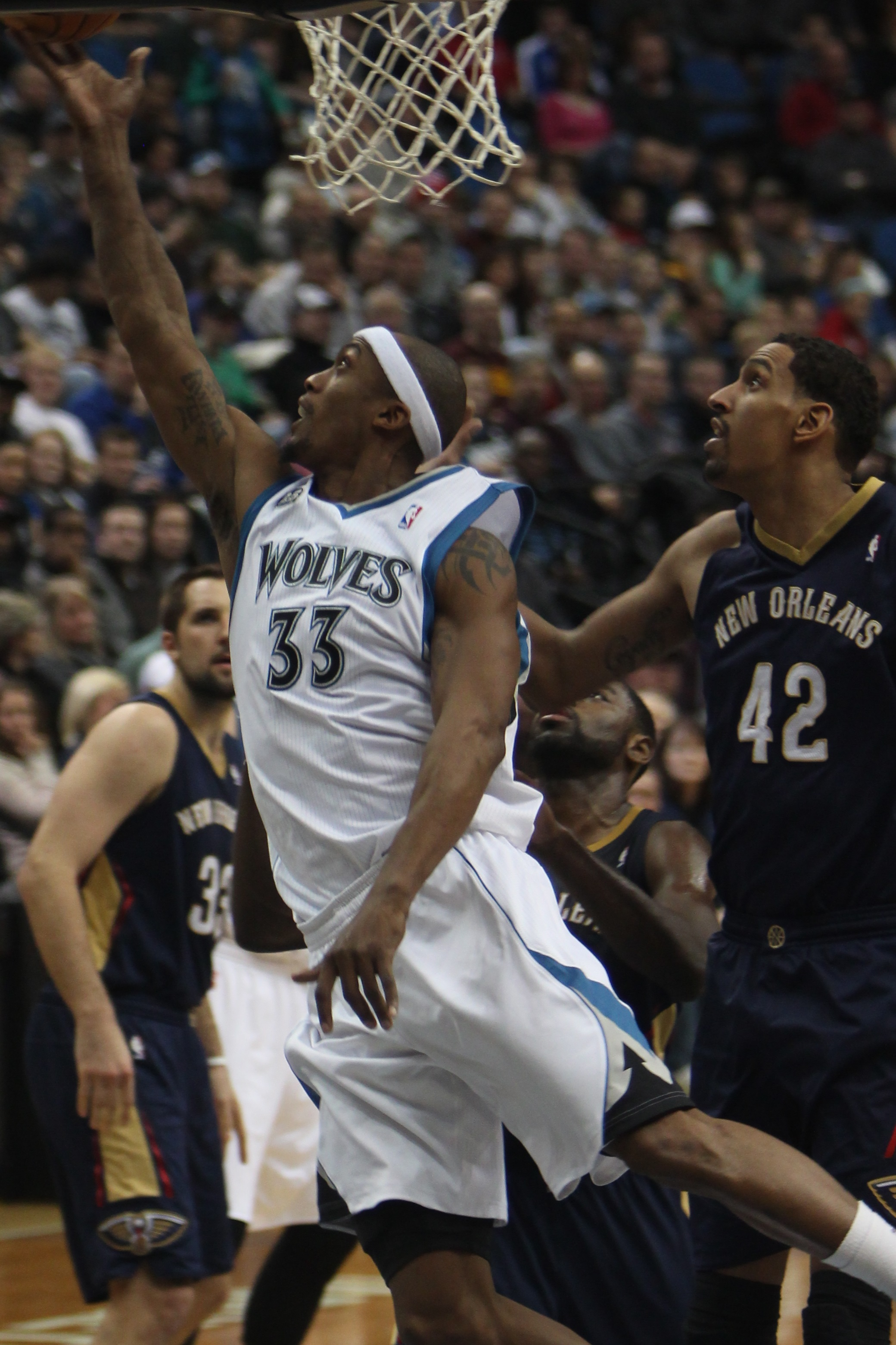 Dante Cunningham at the Target Center